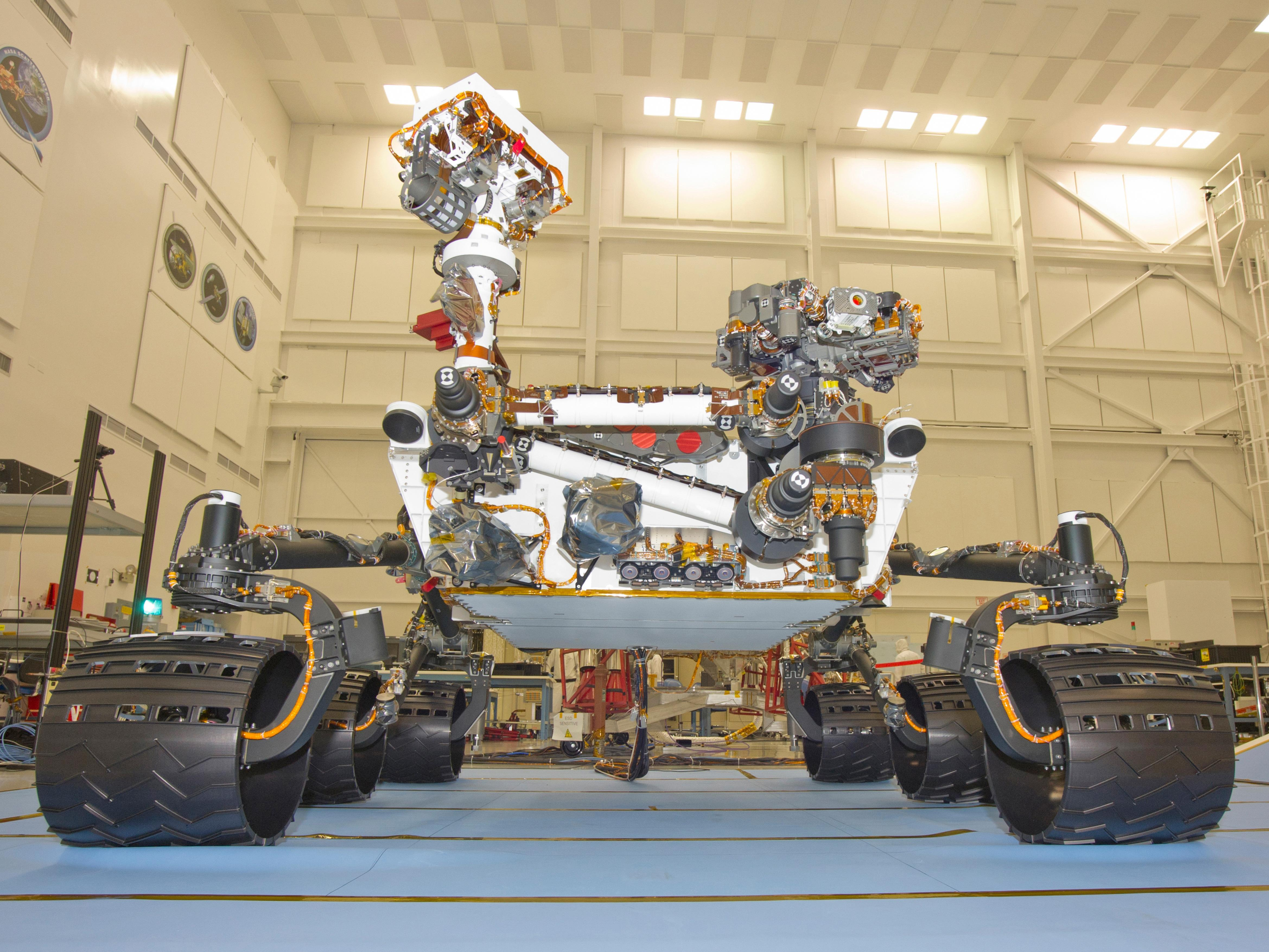 Taken during mobility testing, this image is of the Mars Science Laboratory rover, Curiosity, inside the Spacecraft Assembly Facility at NASA's Jet Propulsion Laboratory, Pasadena, Calif.